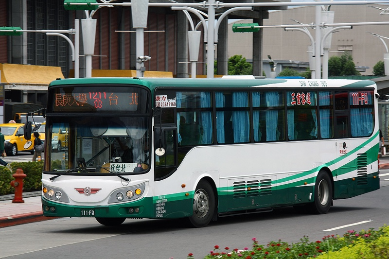 Sanchung Bus 111-FQ 2009 Hino RN8JSSA